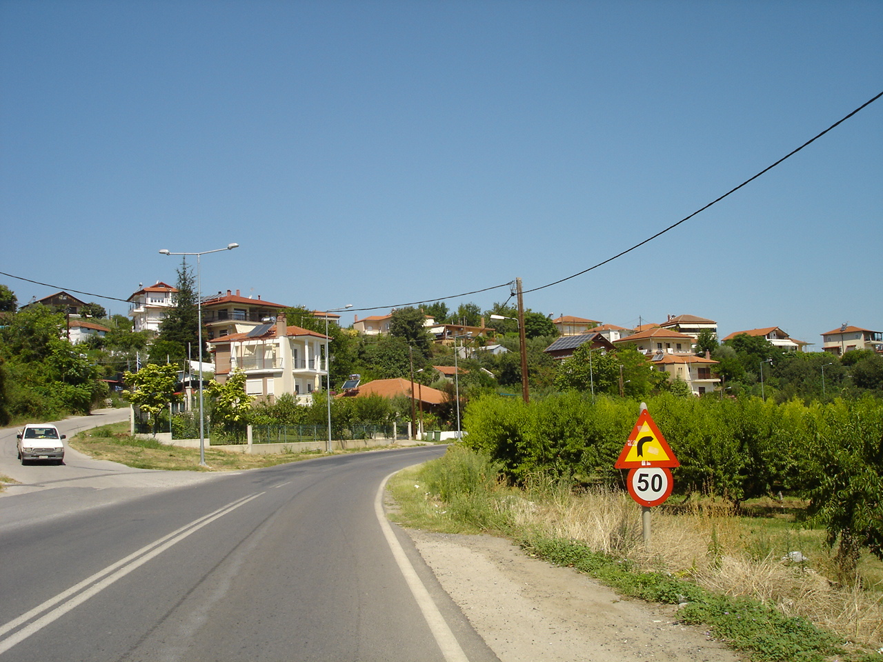 village of Sveta Varvara (Αγία Βαρβάρα) in Aegean Macedonia, Beroia prefecture of Greece